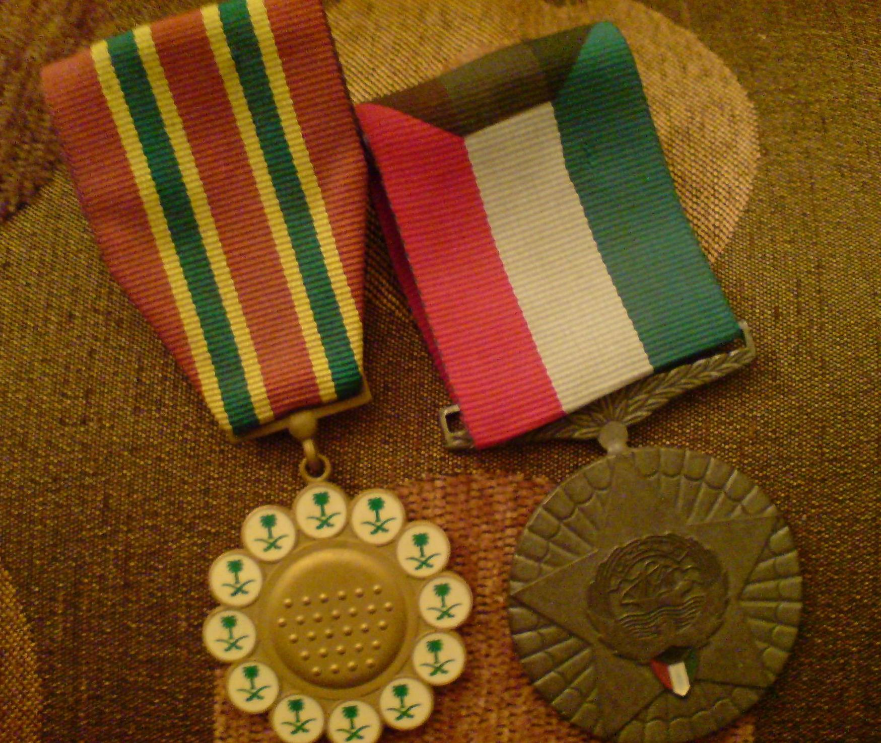 combat medals from Saudi Arabia (left) and Kuwait (right) taken during Gulf war , 1991.